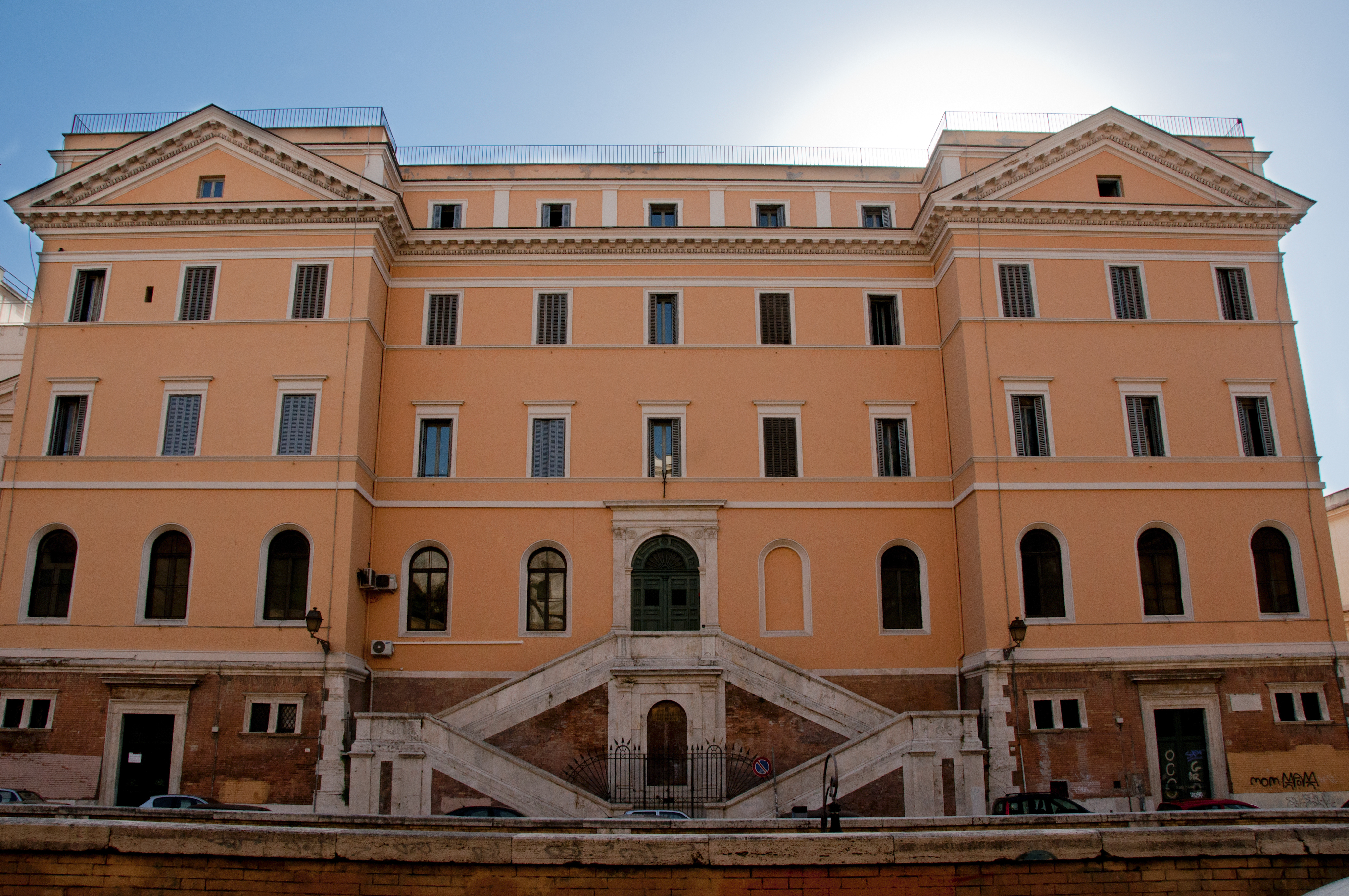 The Liceo scientifico Cavour in via Vittorino da Feltre, Rione Monti, Roma